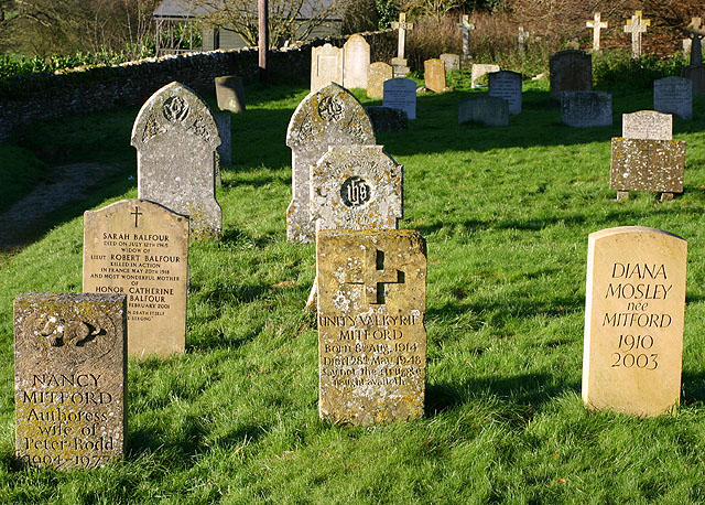 The graves of three of the Mitford sisters in St Mary's parish churchyard, Swinbrook, Oxfordshire. From left to right: Nancy Mitford, Unity Mitford and Diana Mitford.